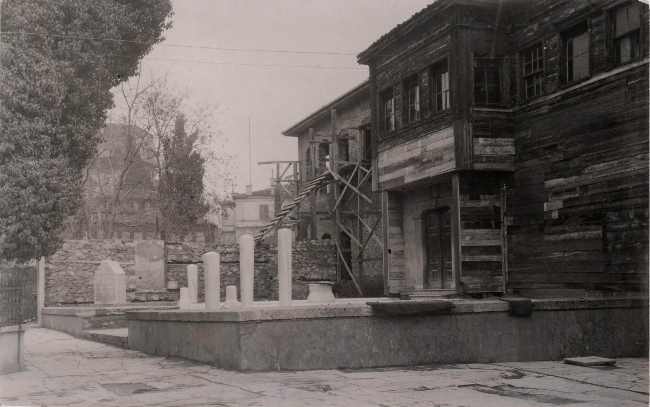 "Galata Mevlevihanesi 1491’de, Afyon Mevlevihanesi Şeyhi Divane (Semaî) Mehmed Dede tarafından, İskender Paşa’nın Galata’daki arazisinde yaptırıldı. Galipdede ve Kulekapısı adlarıyla da bilinen yapı, derviş türbeleri, semahane, sebil-küttab, hâmûşân, sarnıç, şadırvan ve çamaşırhane bölümlerinden oluşur. Harem Dairesi, Matbah-ı Şerif ve Derviş Odaları’nın bir kısmı zaman içerisinde kullanılmaz hâle geldi. Tekke, zaviye ve türbelerin kapatılmasına dair 1925’te çıkarılan kanun çerçevesinde mevlevihanenin faaliyetlerine son verildi. 1975’te Divan Edebiyatı Müzesi olarak yeniden açılan yapı, 2011’den bu yana Galata Mevlevihanesi Müzesi olarak hizmet vermektedir." SALT Araştırma - Ali Saim Ülgen Arşivi